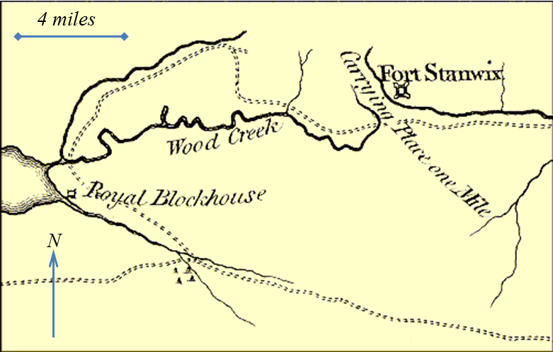 Waterway from the Mohawk River to Oneida Lake (at left) via Wood Creek and the Oneida Carry ("carrying place"). Extracted from Thomas Kitchin's map, "Communication between Albany and Oswego" (1772) that shows the waterway connecting the Hudson River near Albany to Oswego. Oswego is a port on Lake Ontario, which is the easternmost of the Great Lakes